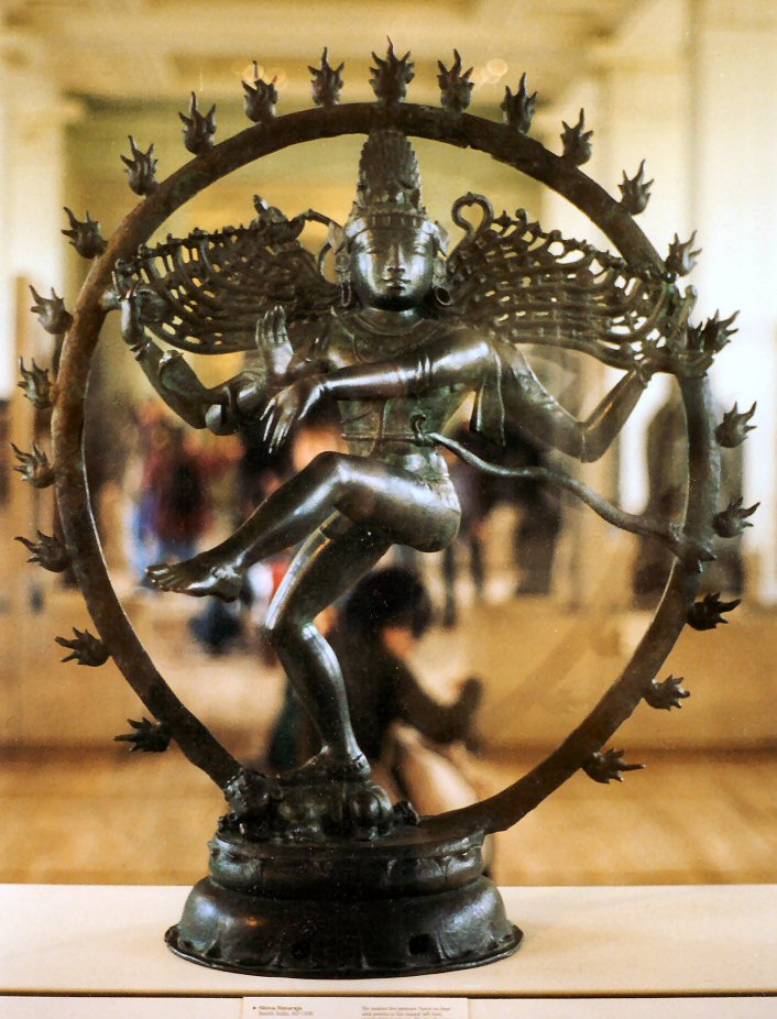 Dancing Shiva, or Nataraja, king of dance.Siva